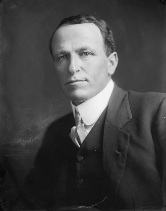 Harry Atmore, photographed in 1911.